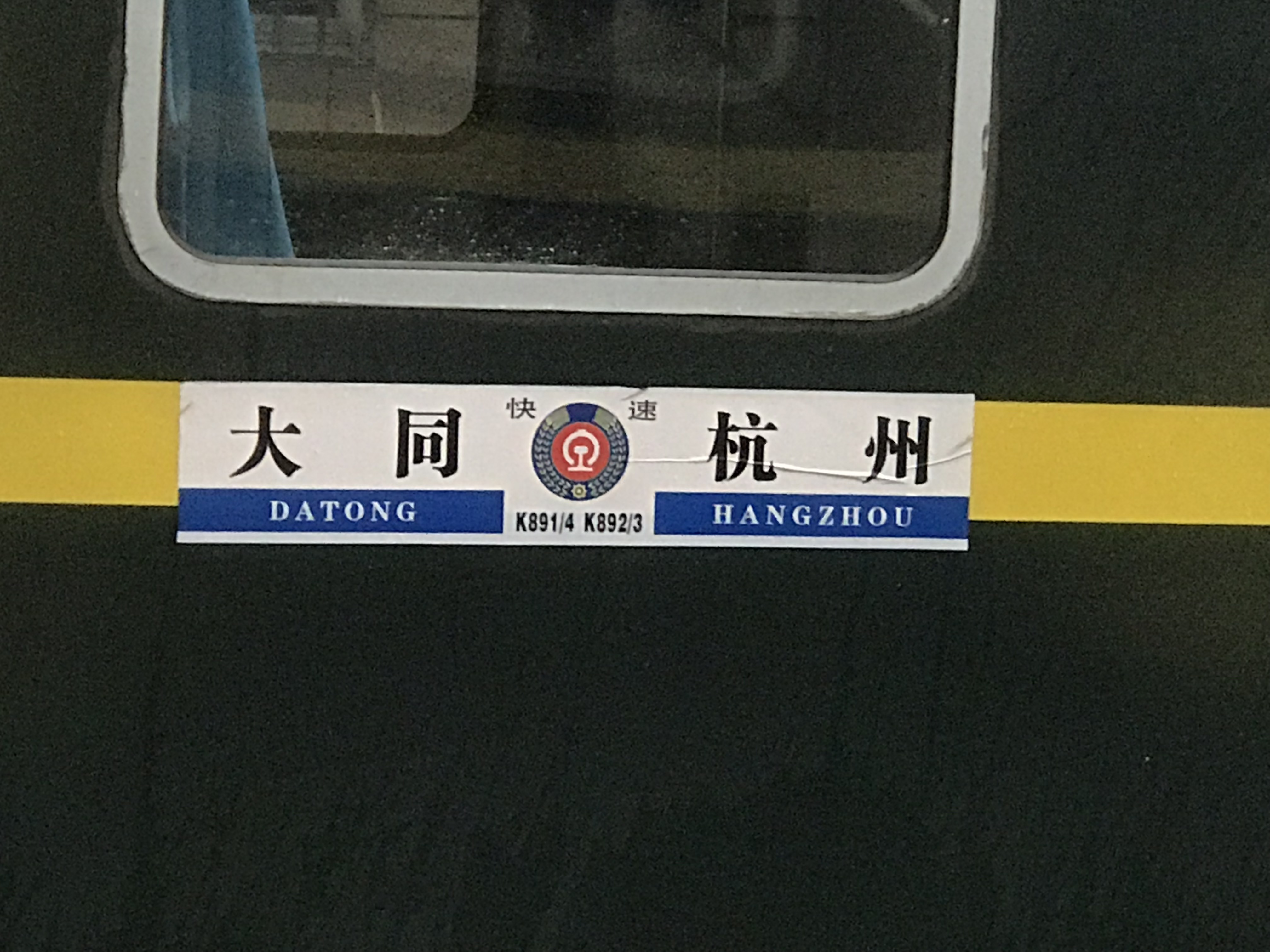 Taken at Hangzhou Station